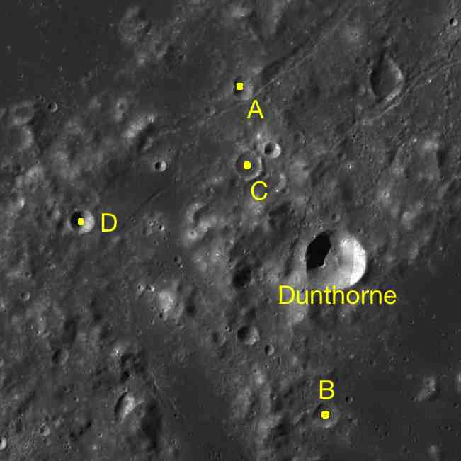 Part of the chart LAC-93 used for the presentation